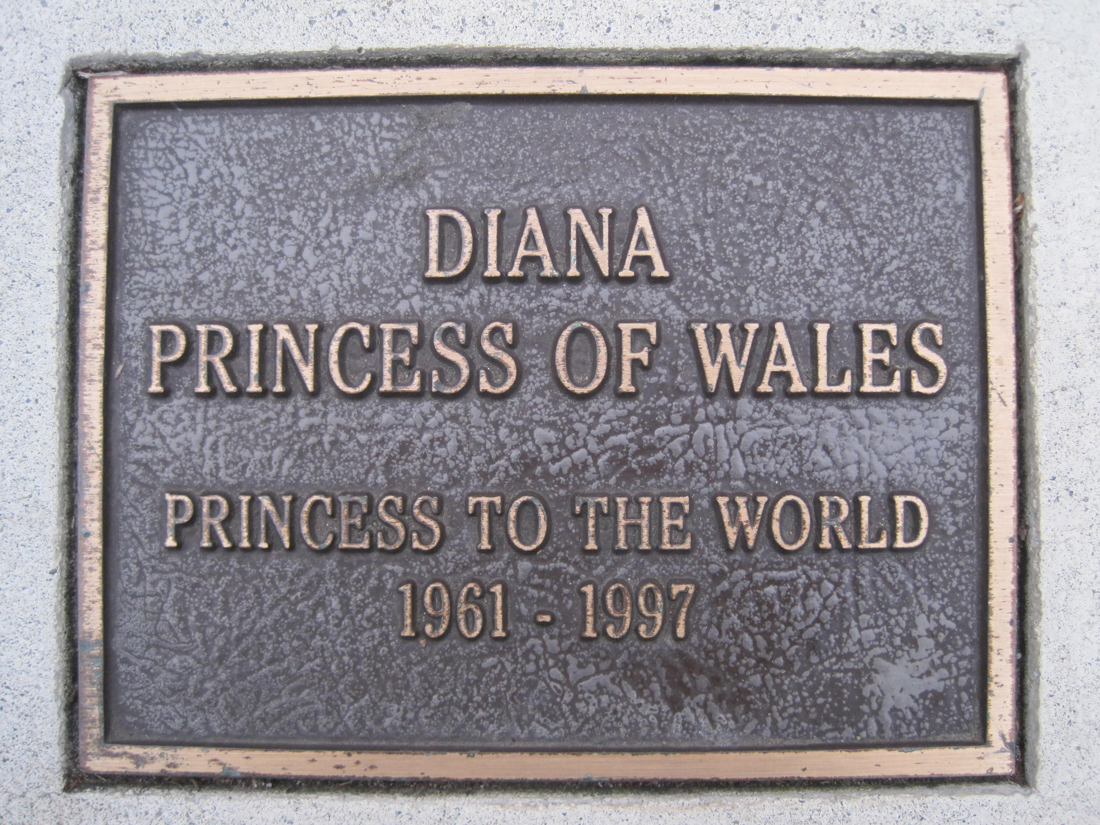 A memorial plaque to Diana, Princess of Wales at the House of Pacific Relations - International Cottages at Balboa Park in San Diego, California.